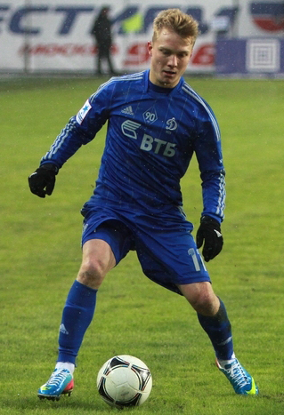 Pavel Ignatovich playing for FC Dynamo Moscow in 2013.